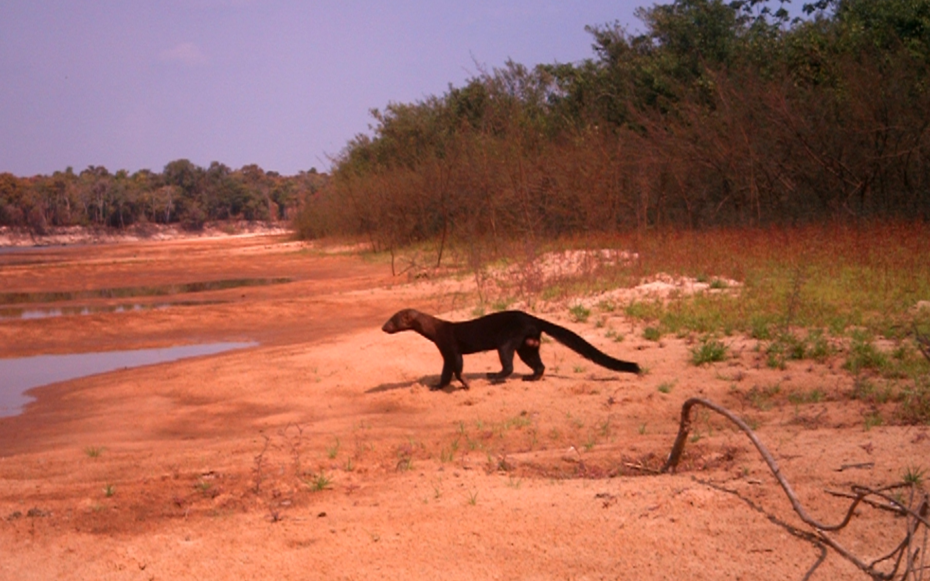 A tayra (Eire barbara) foraging for turtle and bird nests on a beach at Cantão State Park, Brazil